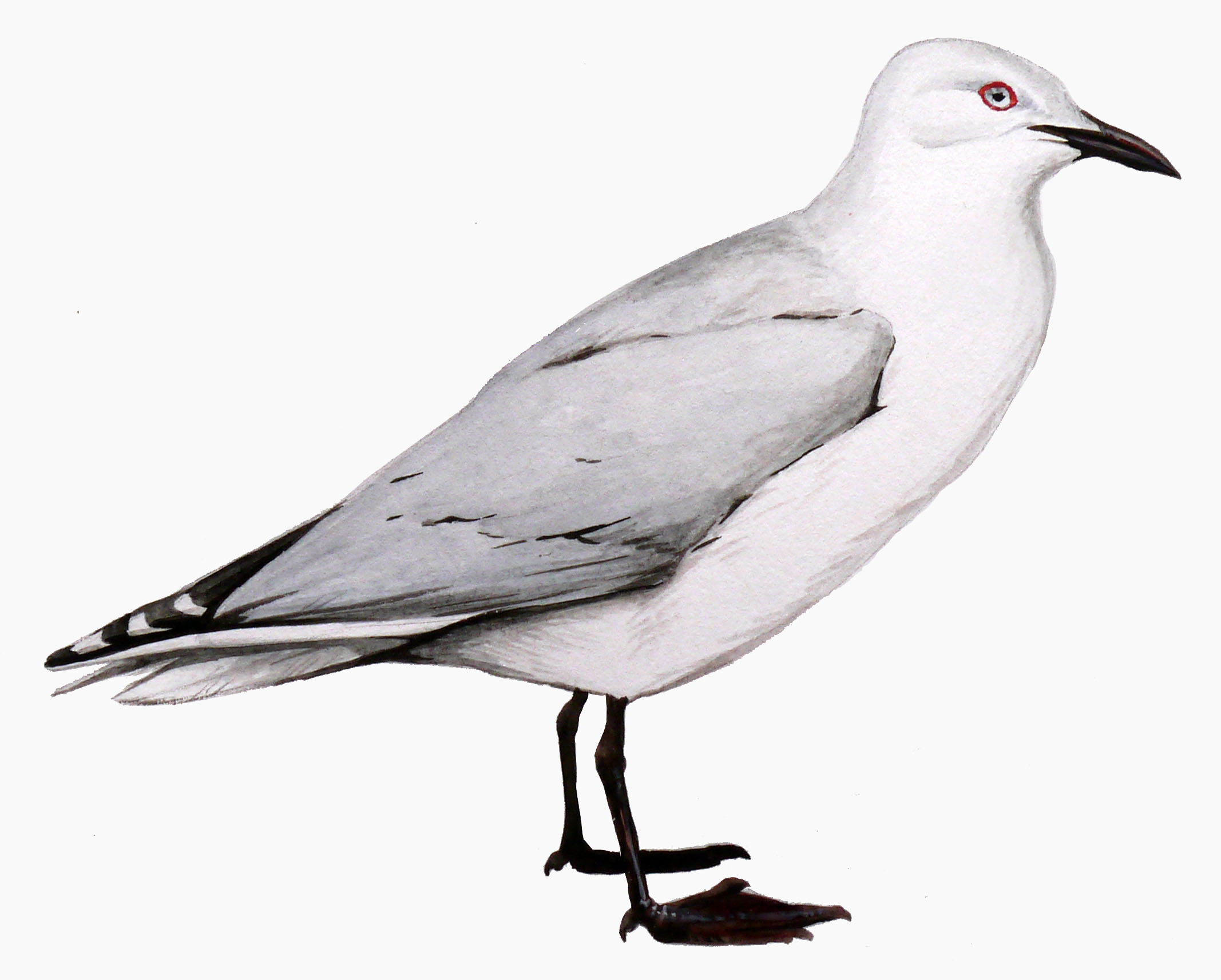 Buller's Gull. Watercolor, Romain Risso.